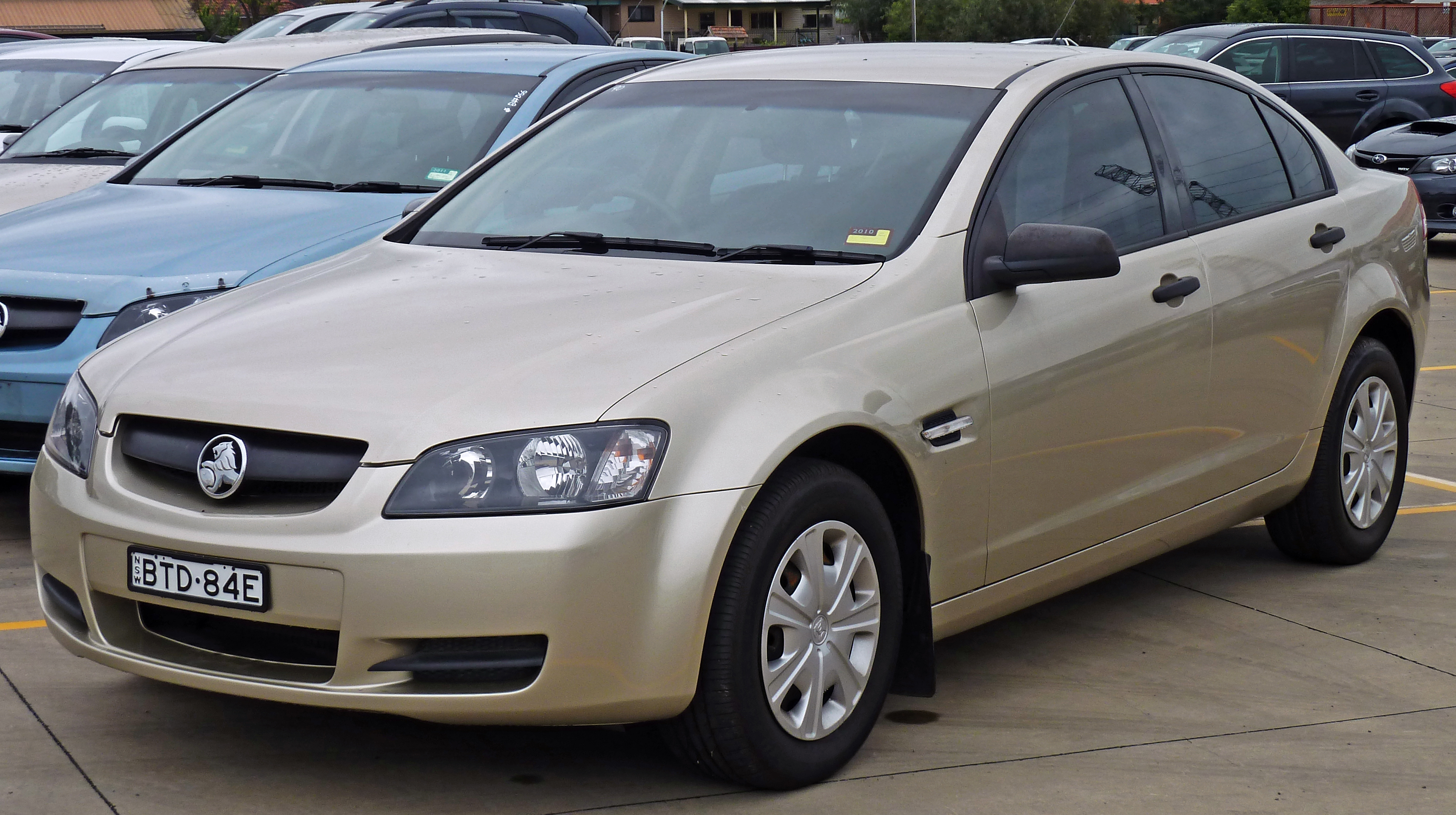 2006 Holden Commodore (VE MY07) Omega sedan. Photographed at Suttons Holden, Chullora, New South Wales, Australia.